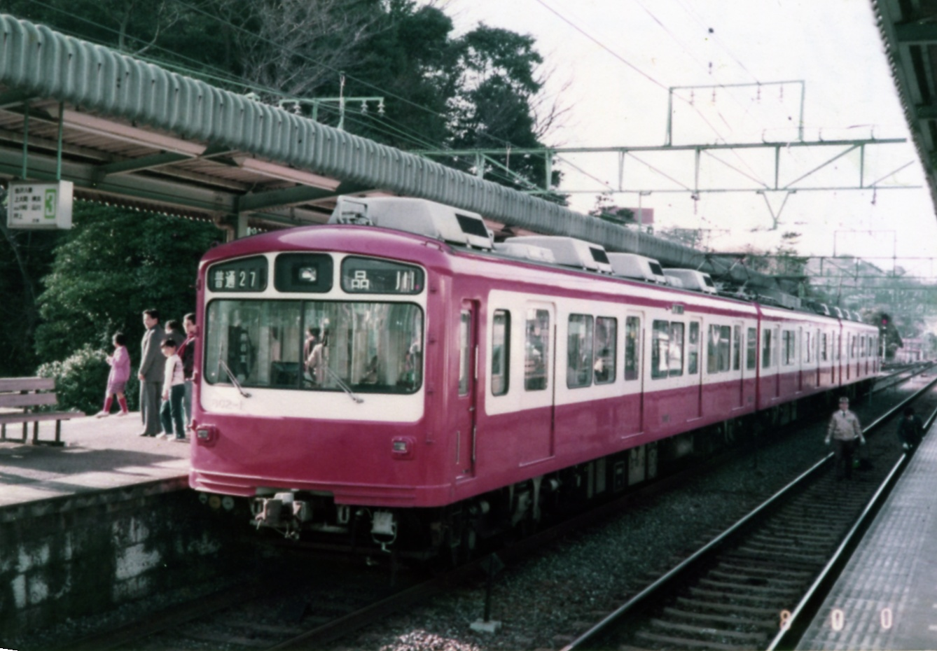 Keikyu 800 series EMU set 802 in original livery at Horinouchi Station